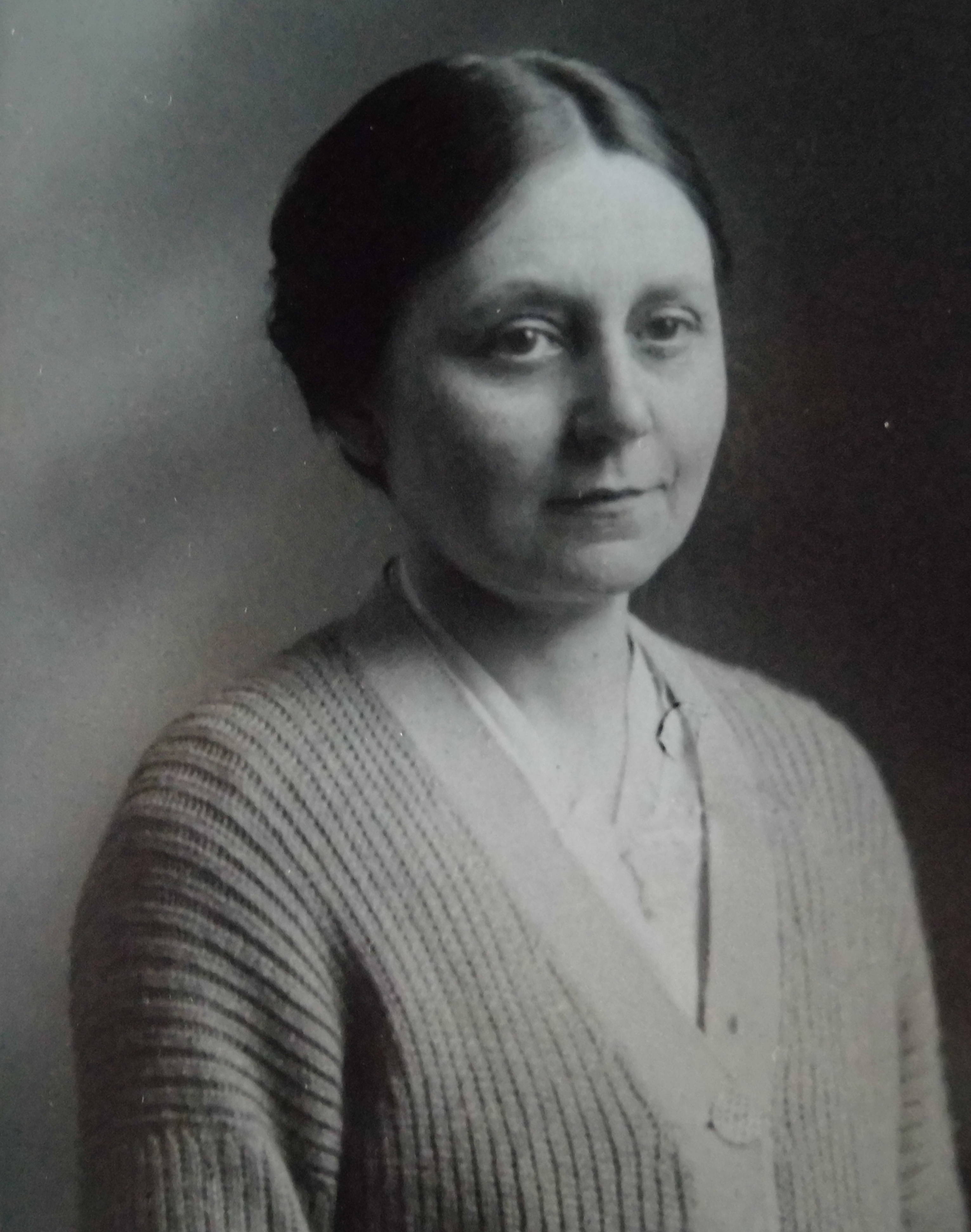 Malègue's wife cirac 1923